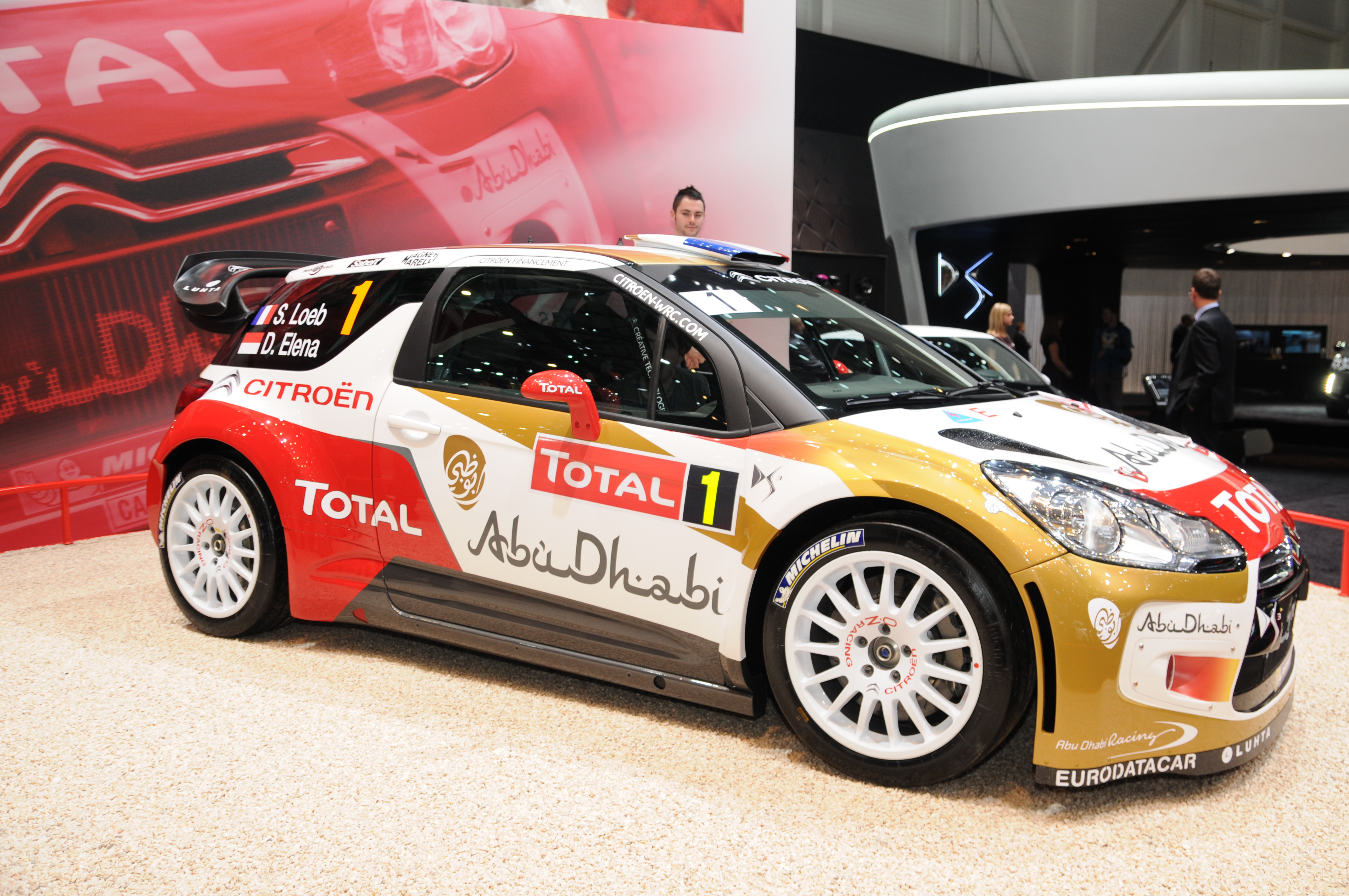 Geneva Motor Show 2013 (photos taken on the first press day)